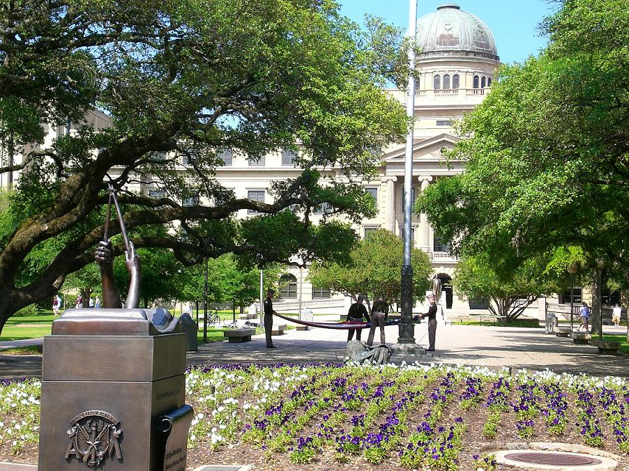 The Academic Plaza as viewed looking east taken in early May 2007.